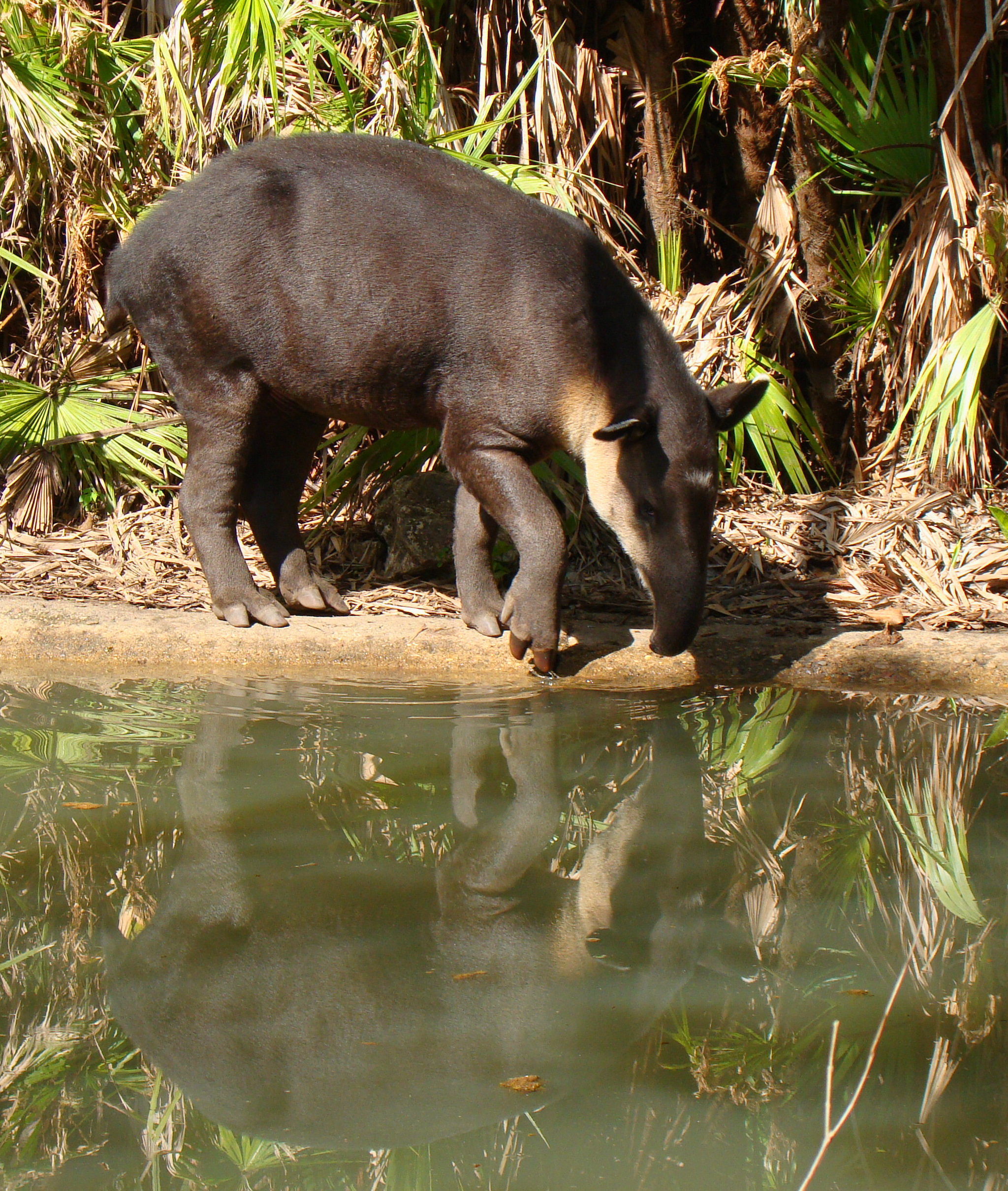 A Baird's Tapir, native to Belize, considers cooling down in a pond on a semi-warm day in December.